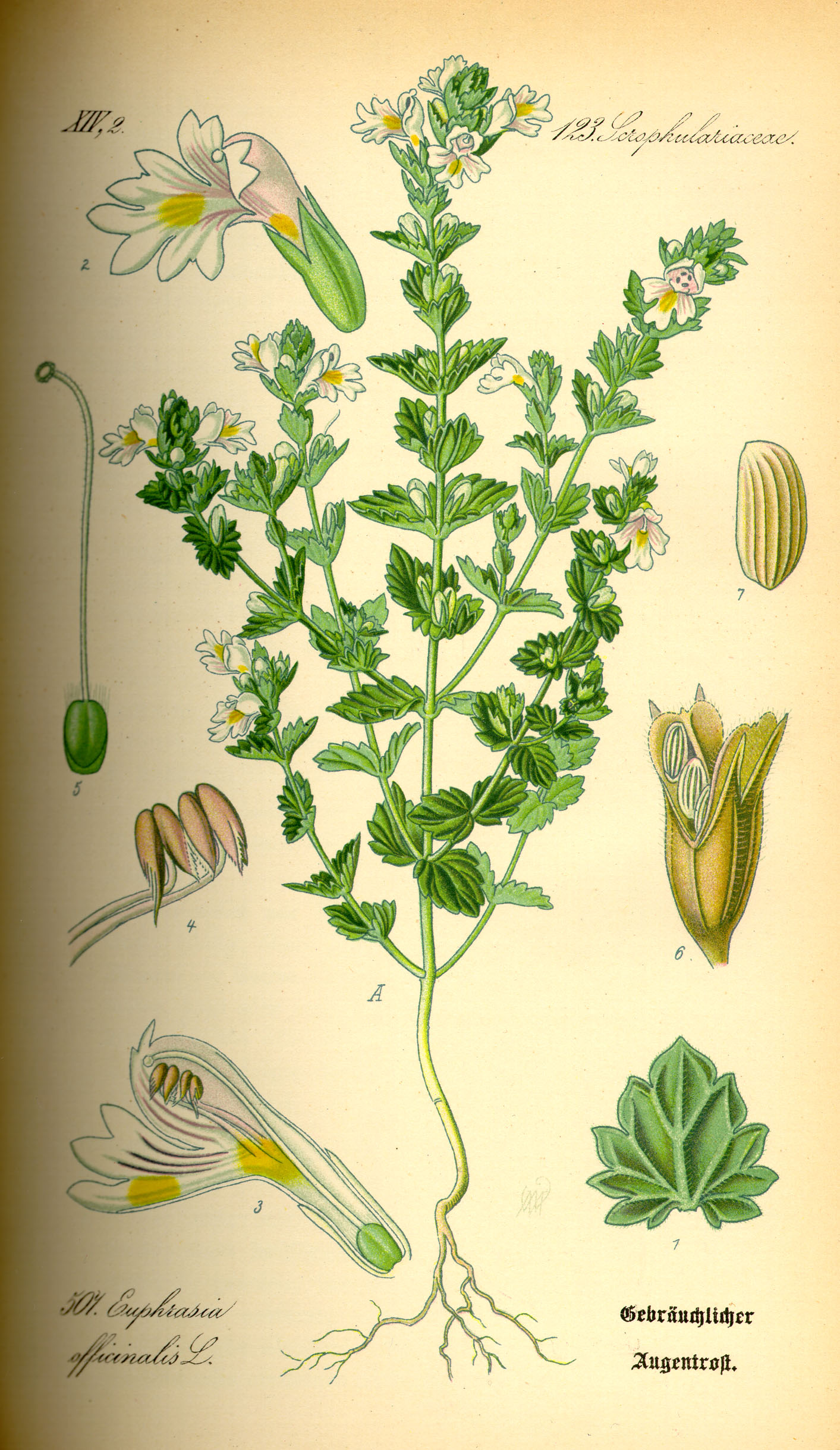 Euphrasia rostkoviana, Family:Orobanchaceae. I query the filename: Although Plants for a Future lists E. rostkoviana as a synonym for E. officinalis (which this page explicitly states is the plant illustrated), the Royal Horticultural Society Encyclopedia of Herbs refers to them as discrete species.